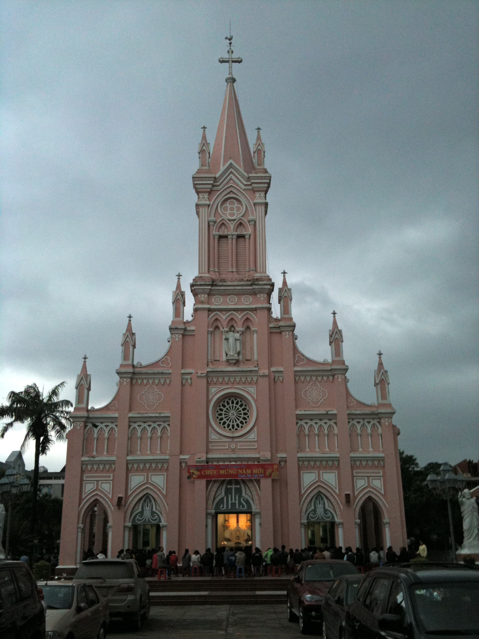 Da Nang Cathedral, otherwise known as the "Rooster Church" (Nhà thờ Con Gà).